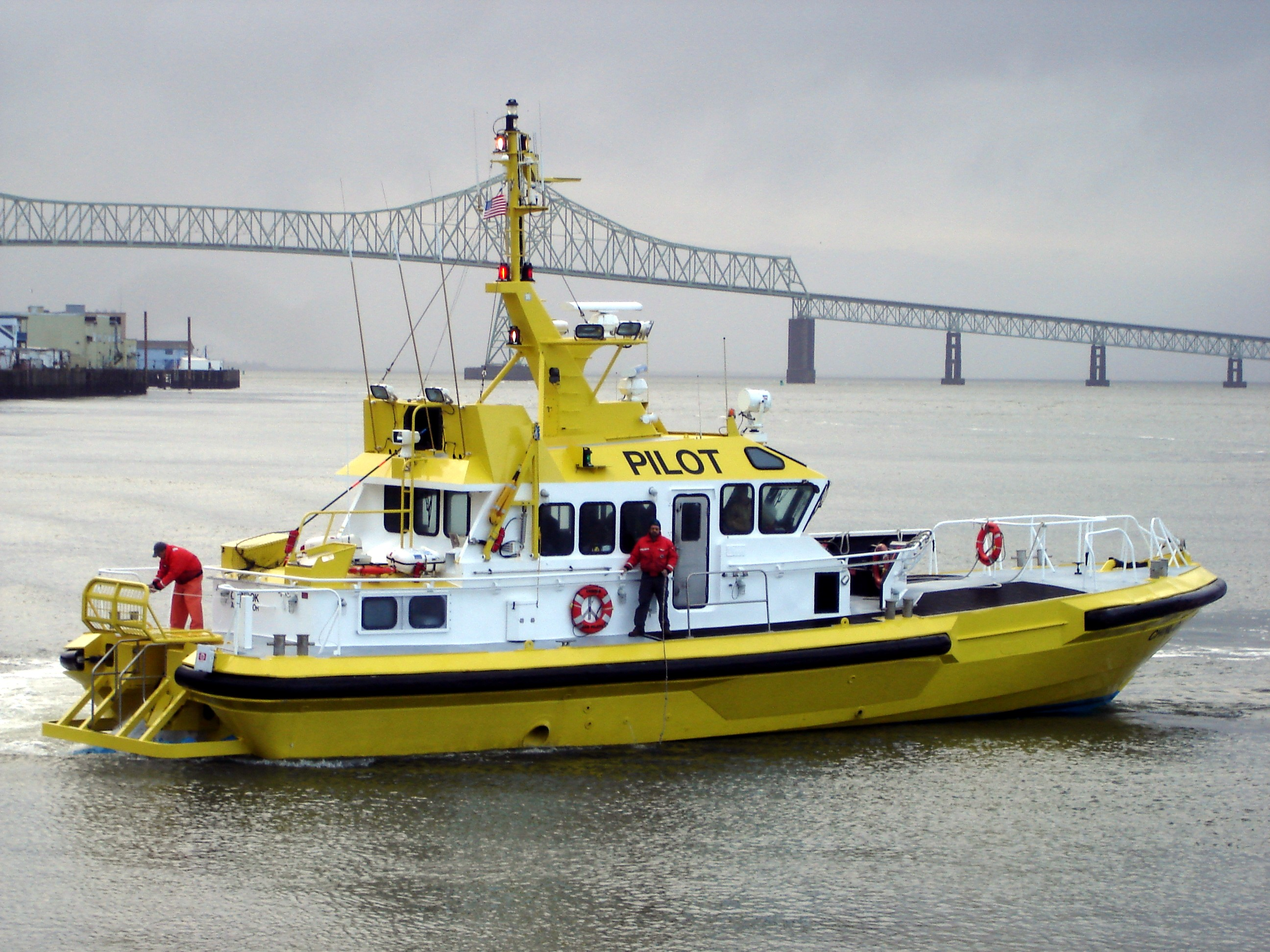 Pilot Boat CHINOOK. Columbia River Bar Pilots